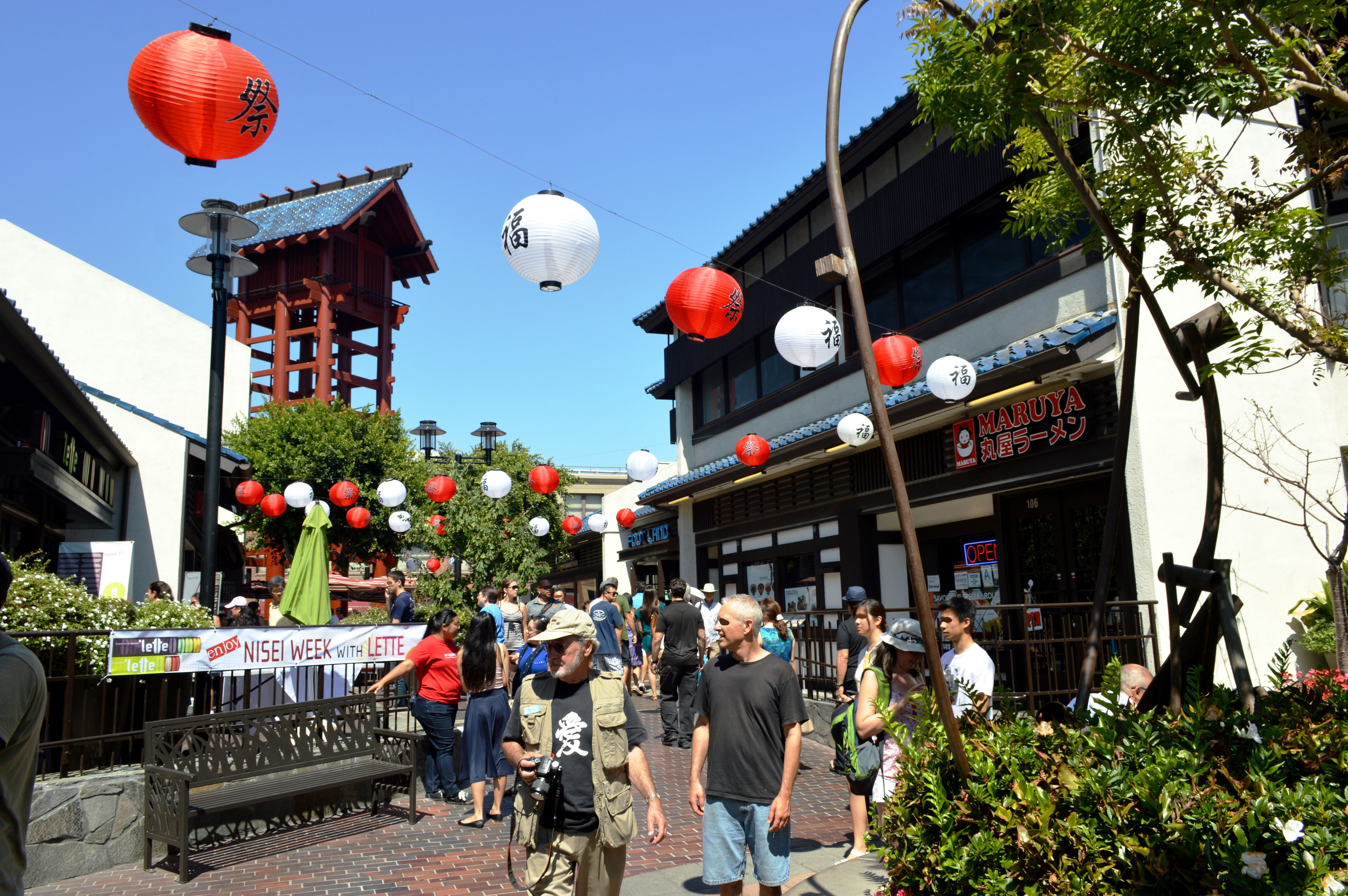 Japanese Village Plaza during the 74th Nisei Week Festival (2014) - Little Tokyo, Los Angeles, California.